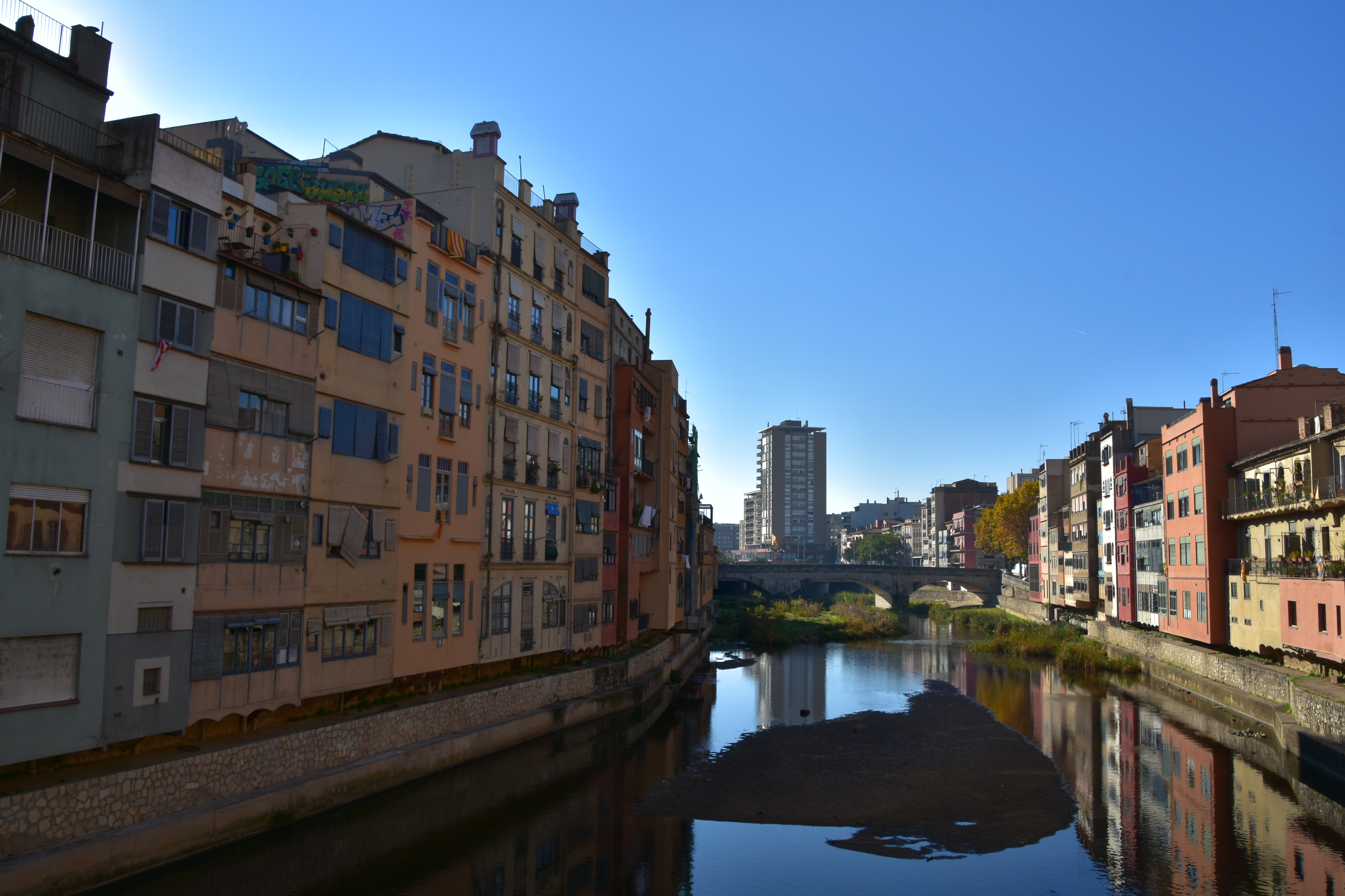 Houses along the Onyar River, Girona (6)